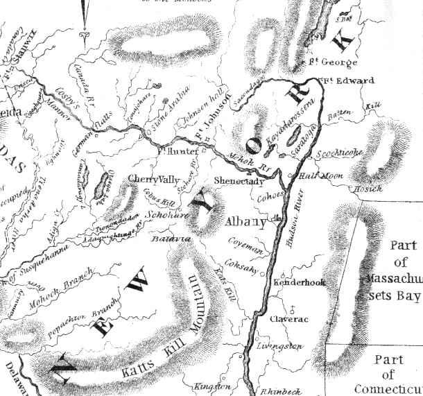 Map of the greater Albany, New York area (Capital District) from 1771, produced by Guy Johnson.